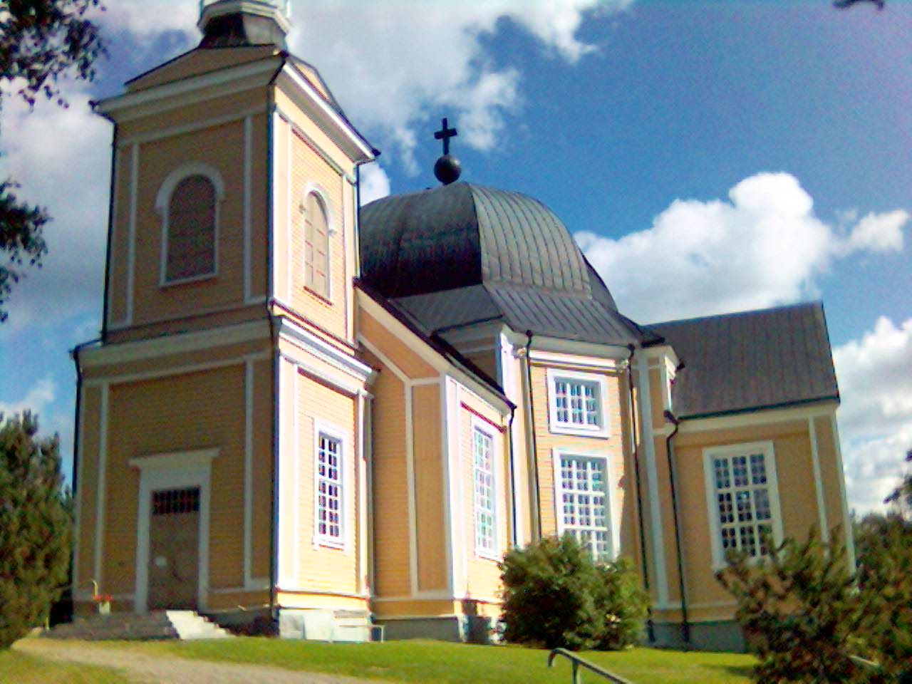 Rääkkylä Church in Rääkkylä, Finland